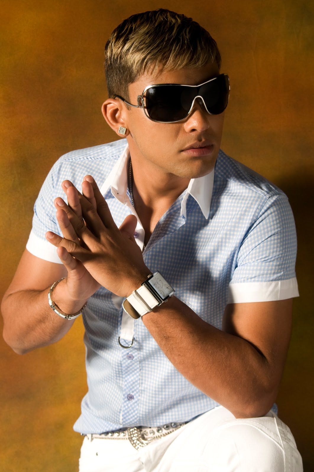 Photo capted with a KODAK Digital Camera